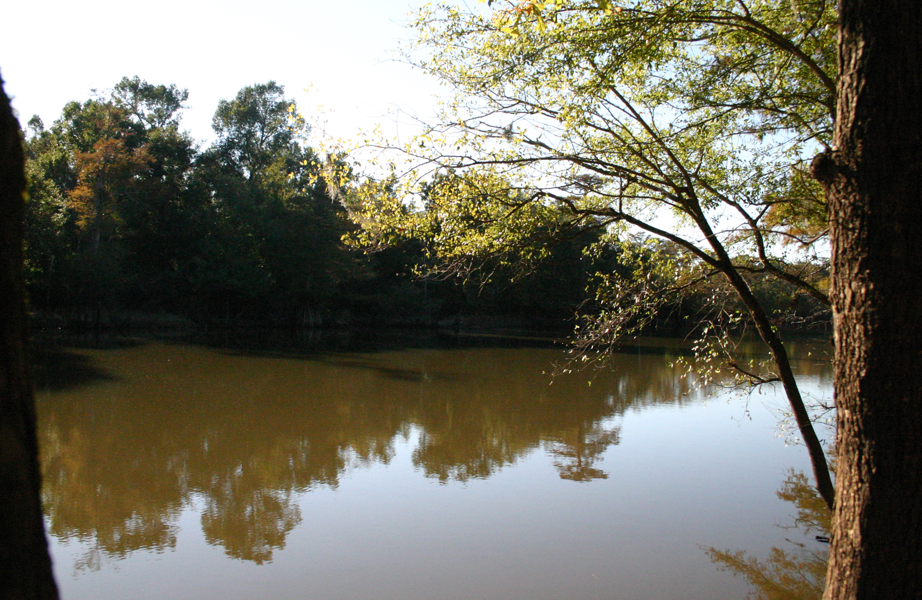 Wee Tee Lake, an oxbow of the Santee River, South Carolina Image copyleft: Image taken by me, released under GFDL, Pollinator 05:18, 9 February 2006 (UTC)